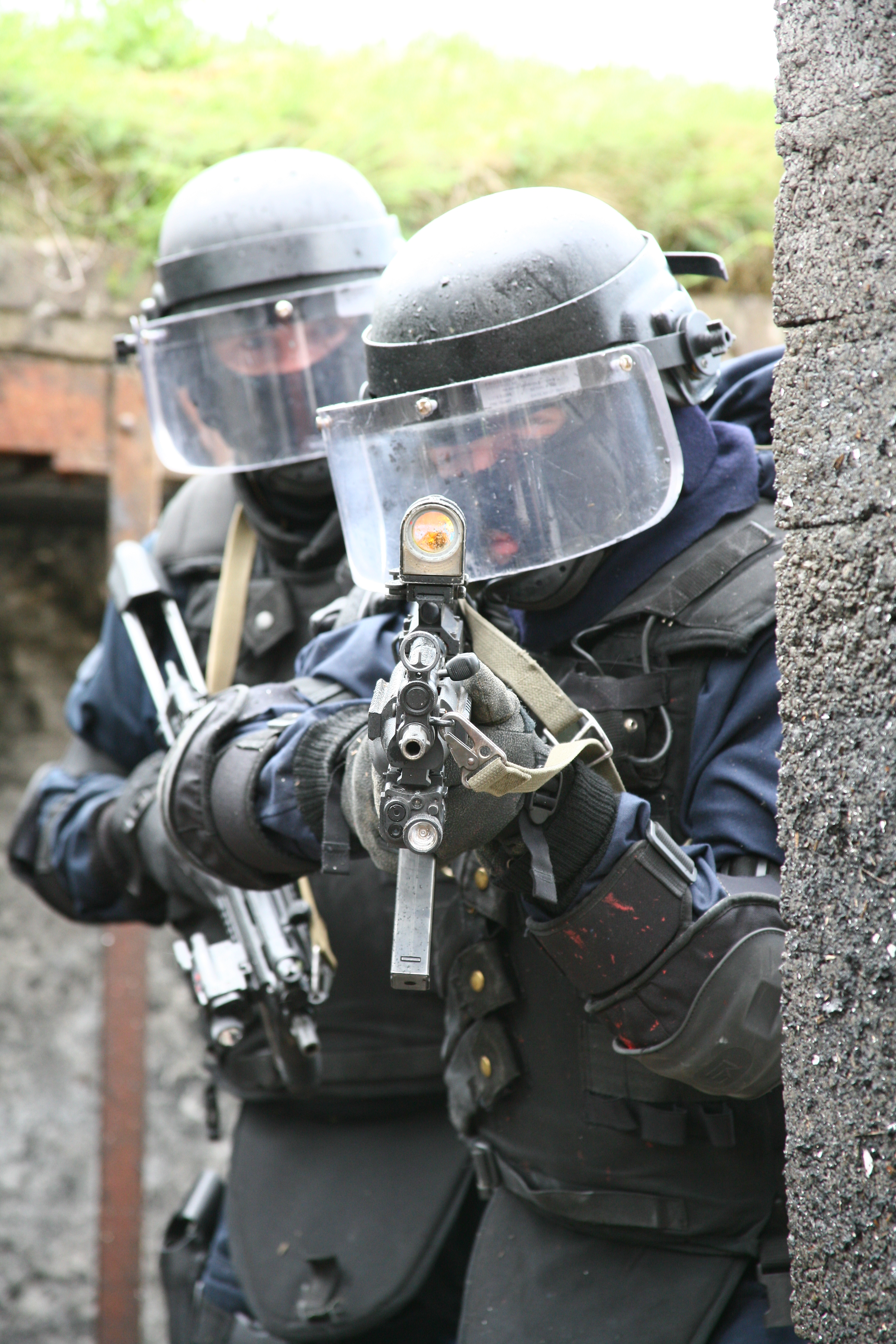 Irish Army Ranger Wing (ARW), Defence Forces Ireland special operations forces, counter terrorism exercise.